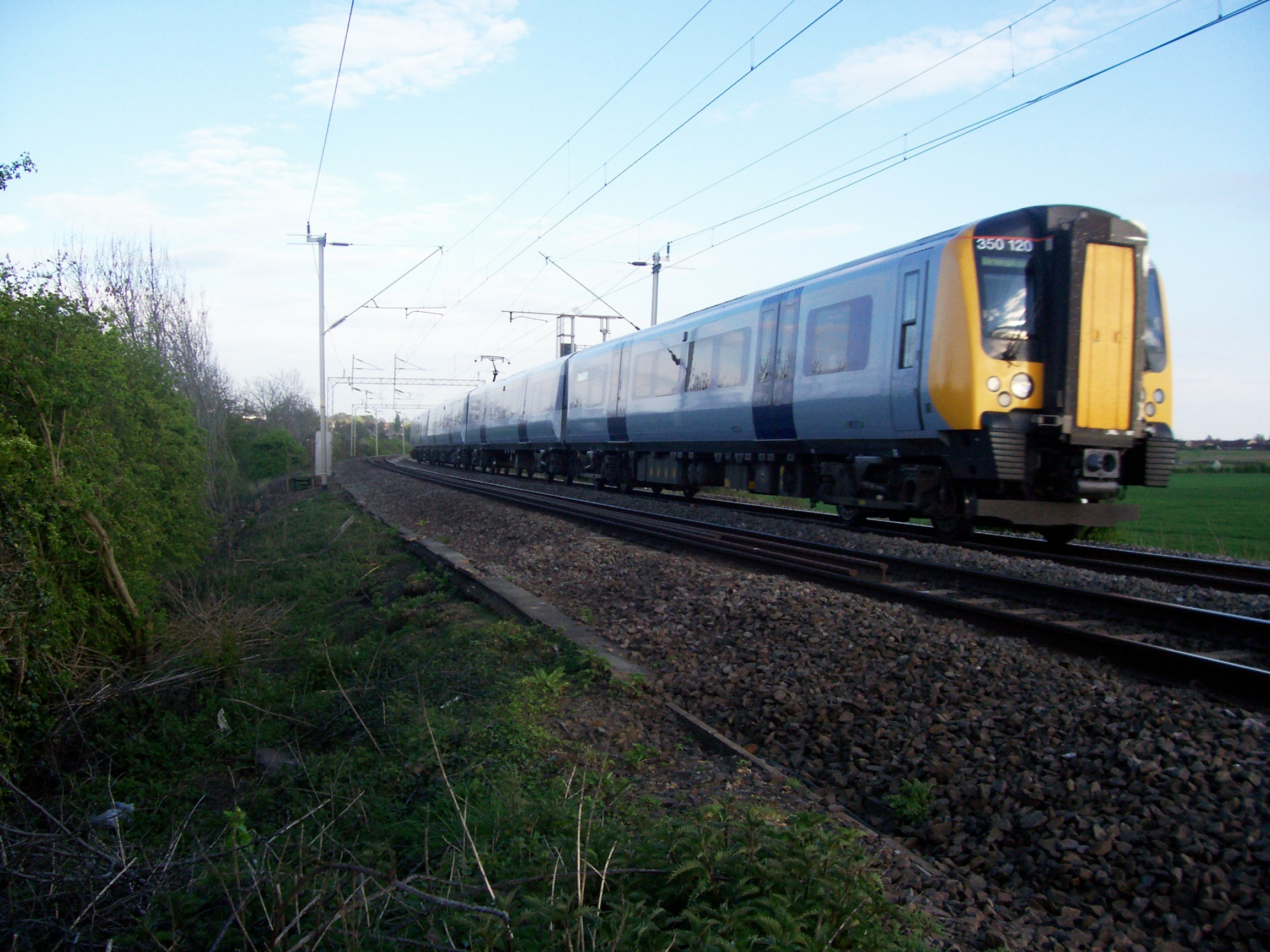 class 350 Desiro, number 350120 passing Kingsthorpe, just North of Northampton station, on a Birmingham bound service Author: Daniel Adkins (user:llamafish)